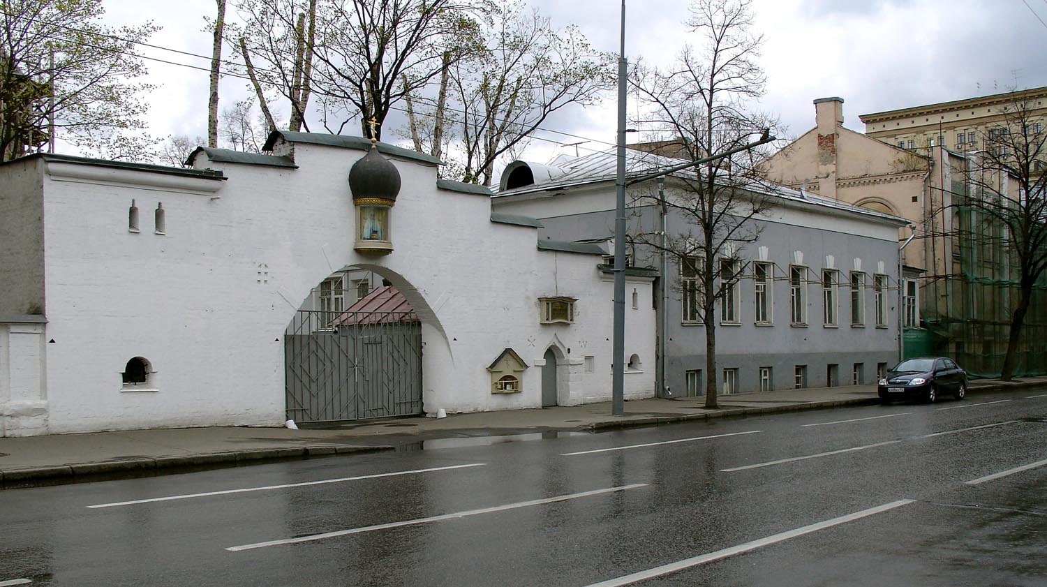 Gates of Marfo-Mariinsky Convent, Moscow, Russia, by Alexey Shchusev